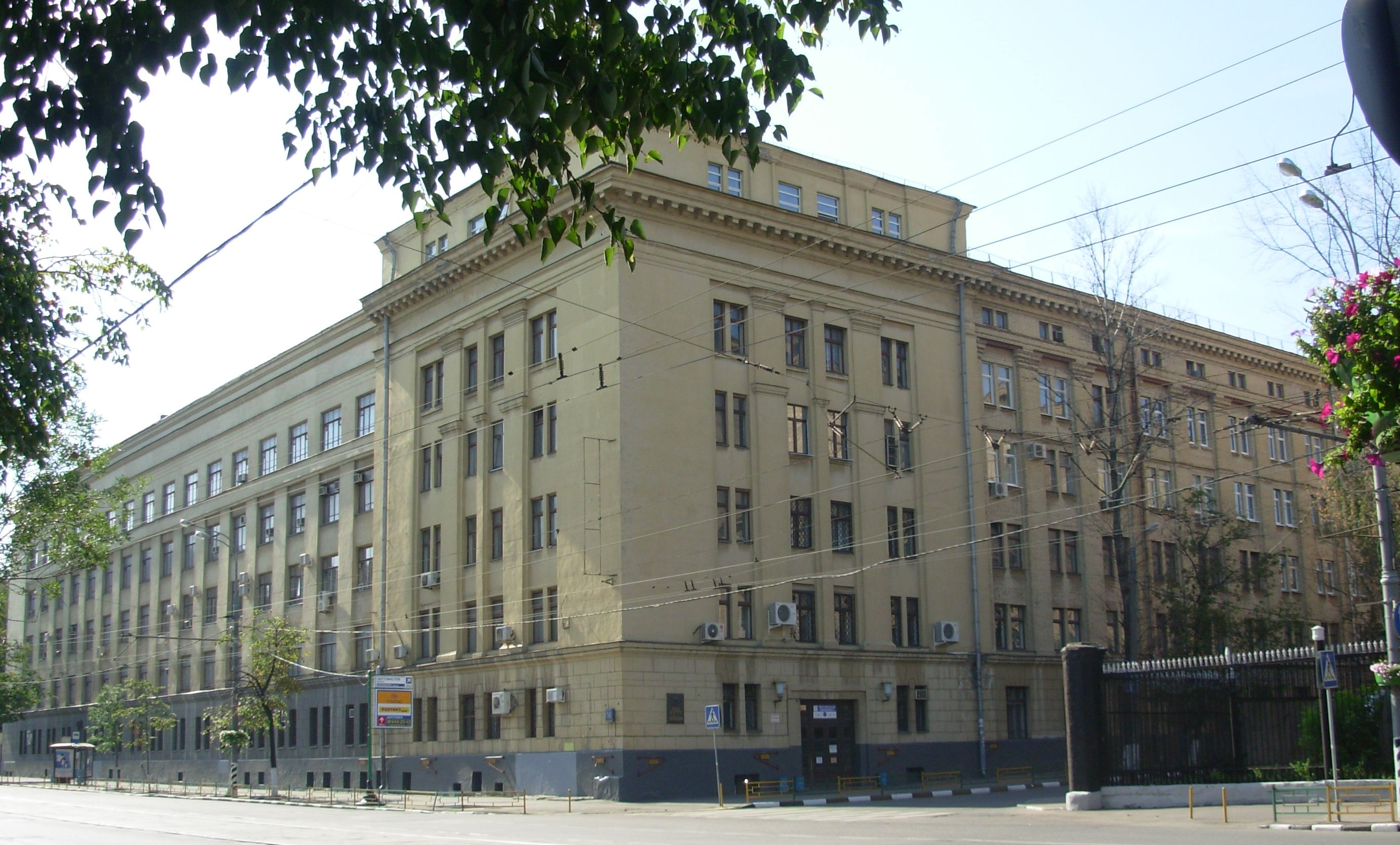 Moscow Power Engineering Institute Russia